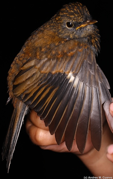 A handsome spotty juvenile Andean Solitaire Myadestes ralloides